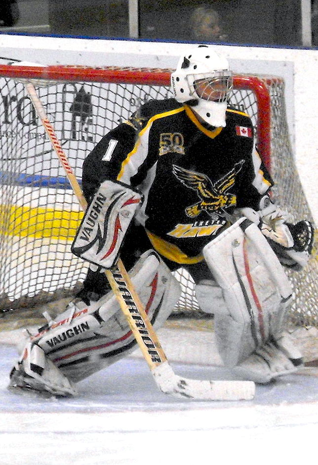 These images of SOJHL action during the 2013-14 season are taken by Devan Mighton.